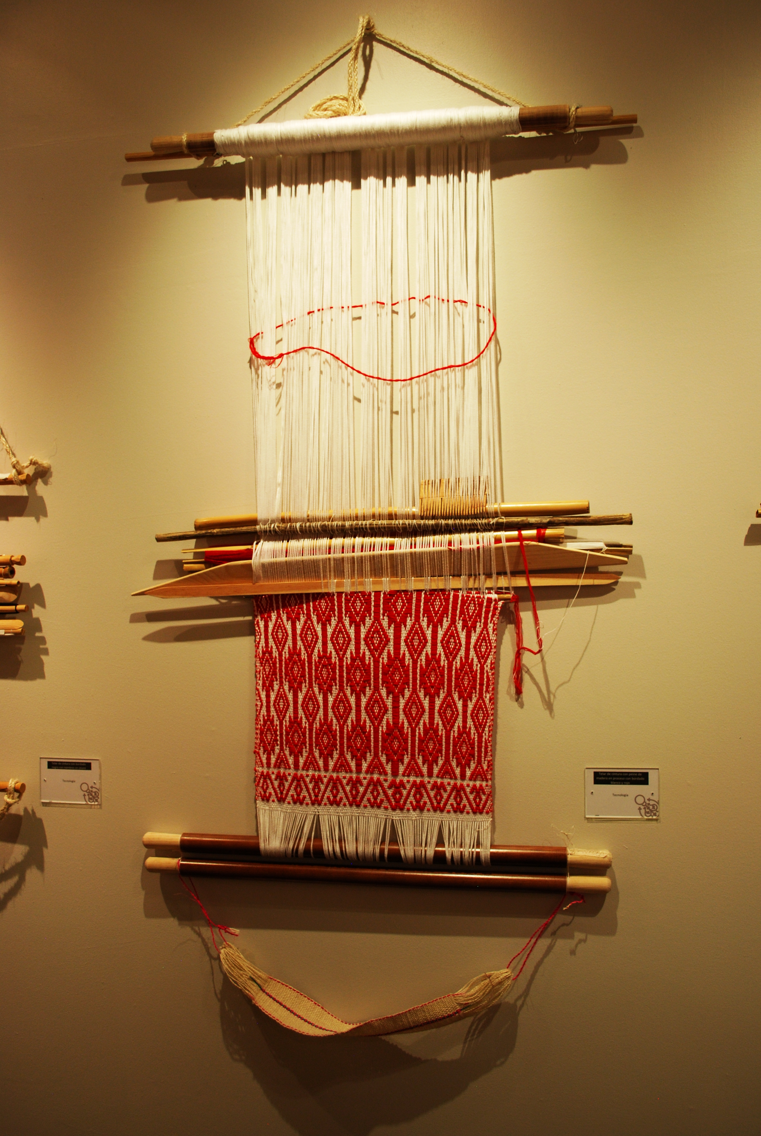 Cloth with red and white motif in progress on a backstrap loom as part of a temporary exhibit on crafts from Hidalgo at the Museo de Arte Popular, Mexico City